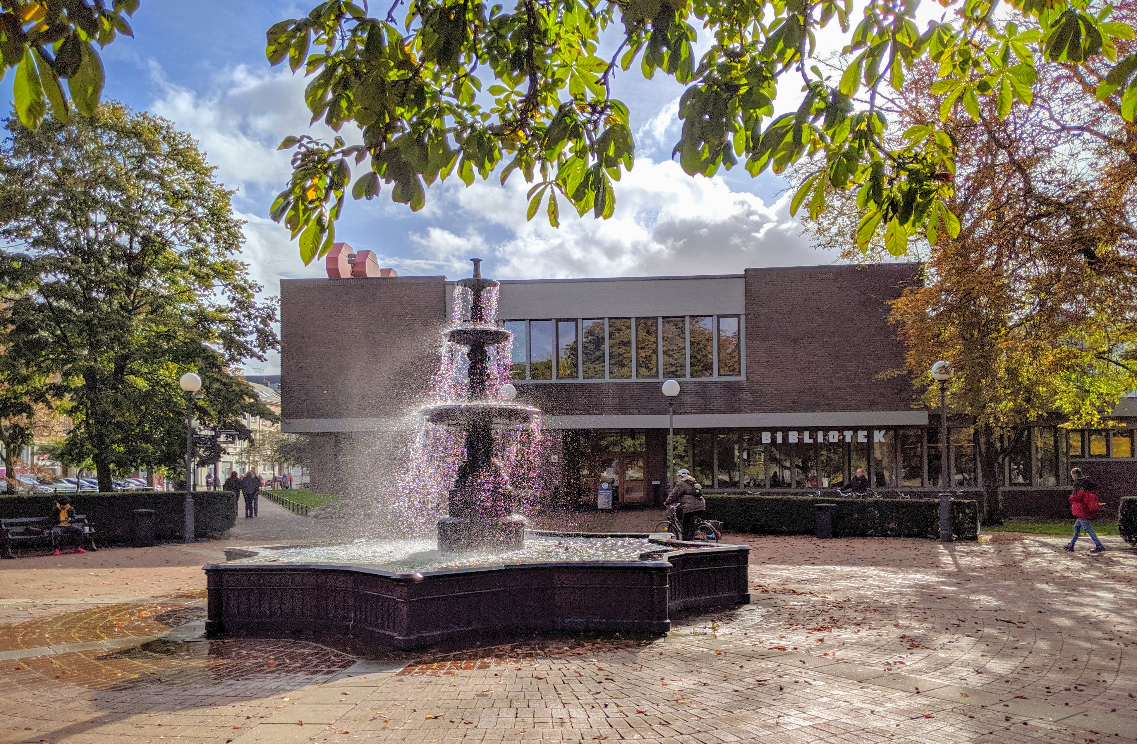 public library